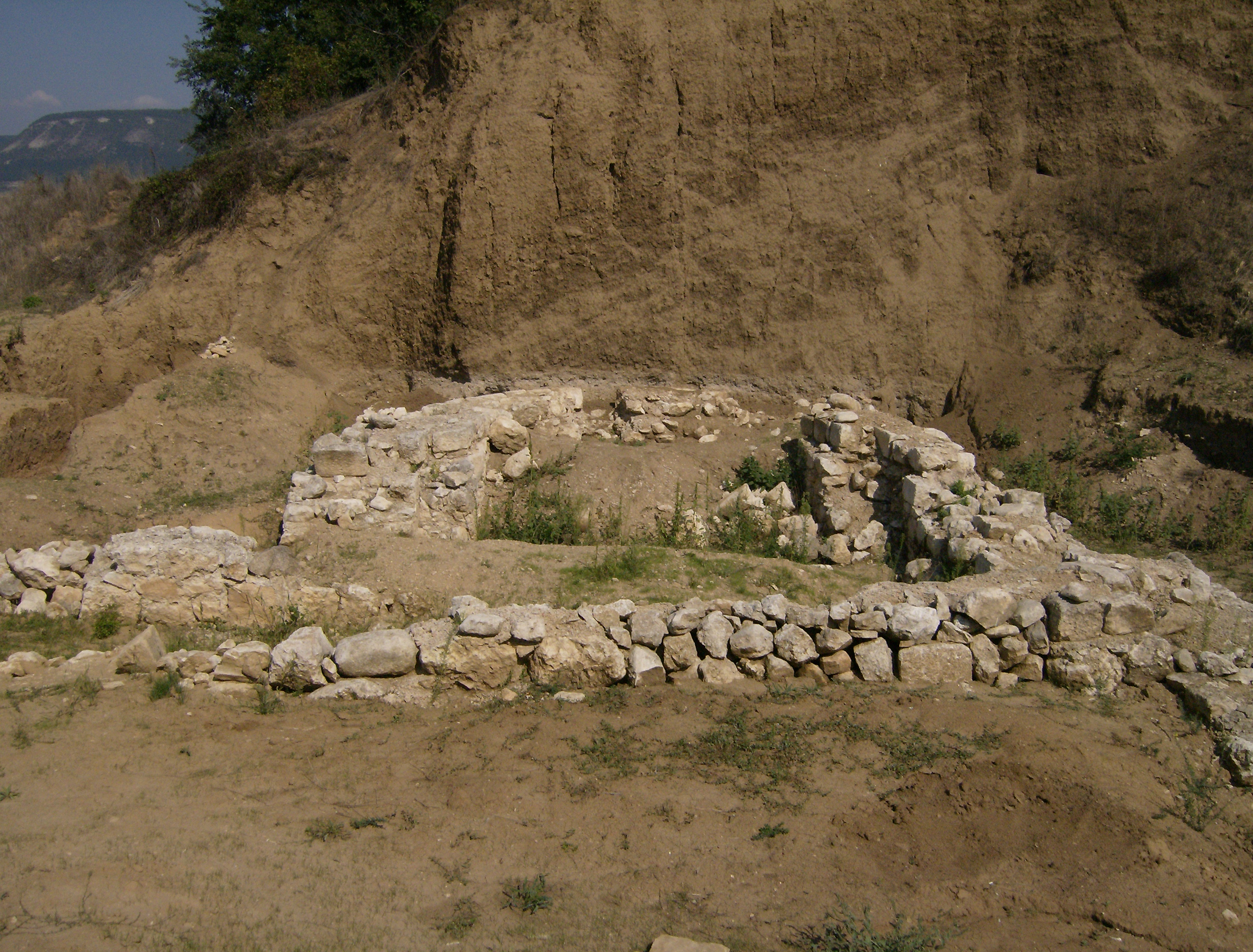 Fortress of Khan Omurtag